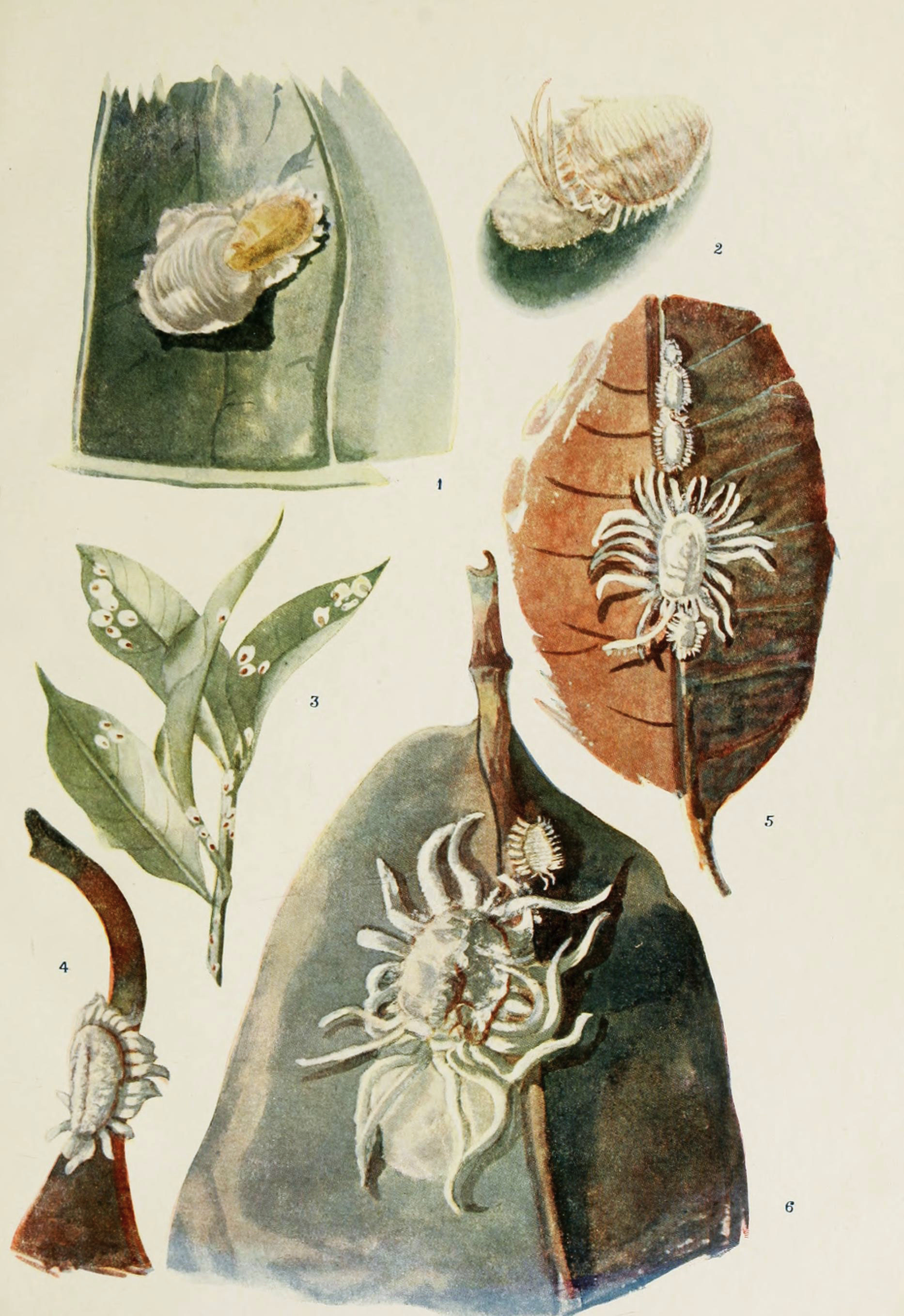 Picture from book Indian Insect Life: a Manual of the Insects of the Plains by Harold Maxwell-Lefroy.